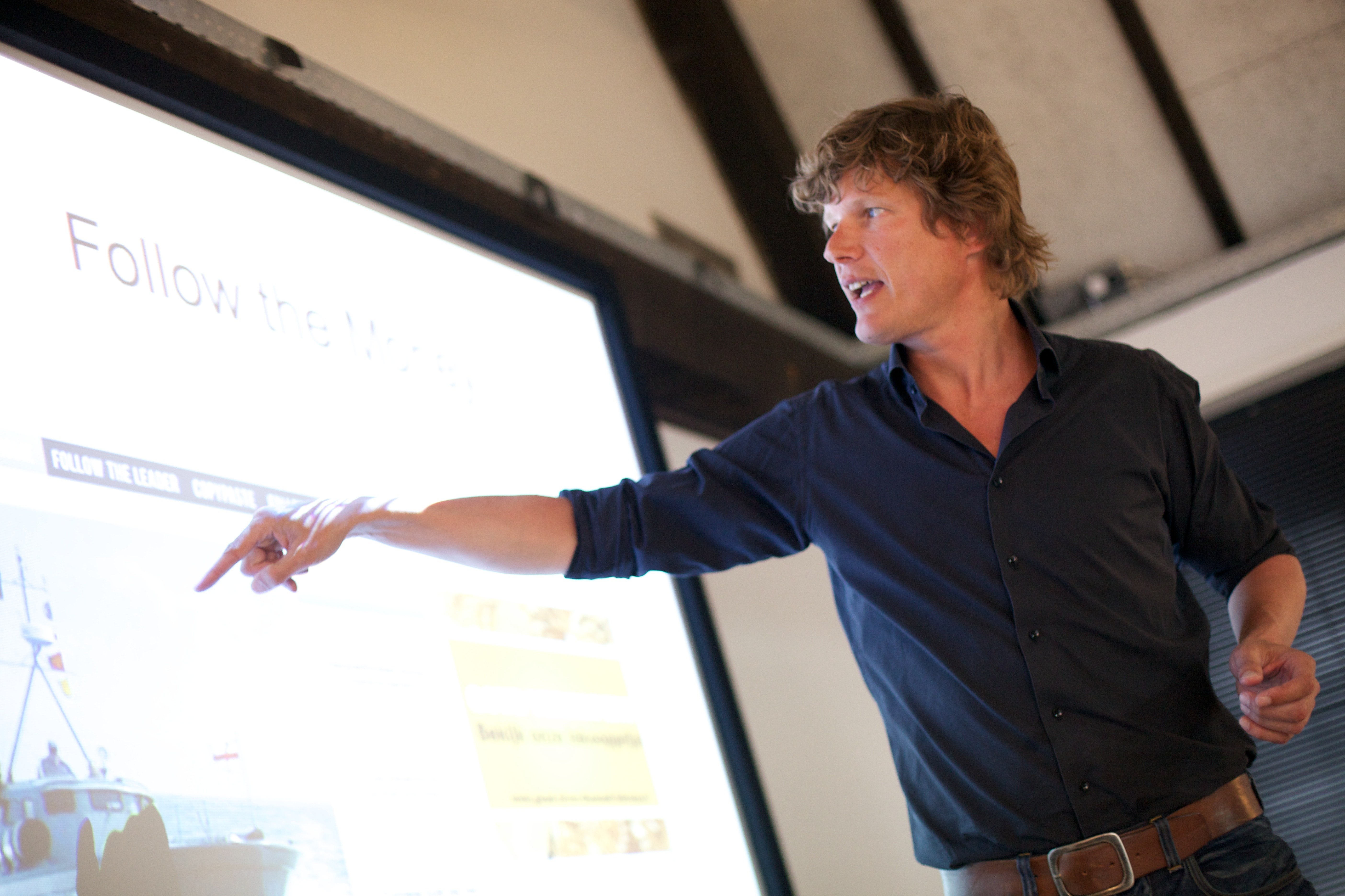 Dutch journalist Eric Smit during NVJ Freelancersdag, 5 June 2012